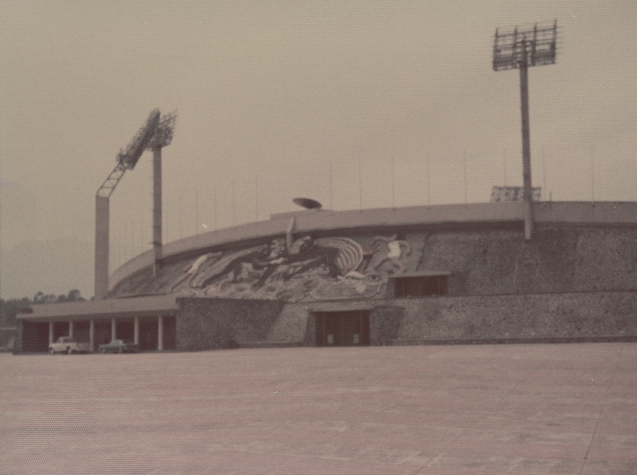 National Autonomous University, Mexico City. View to Olympic Stadium.